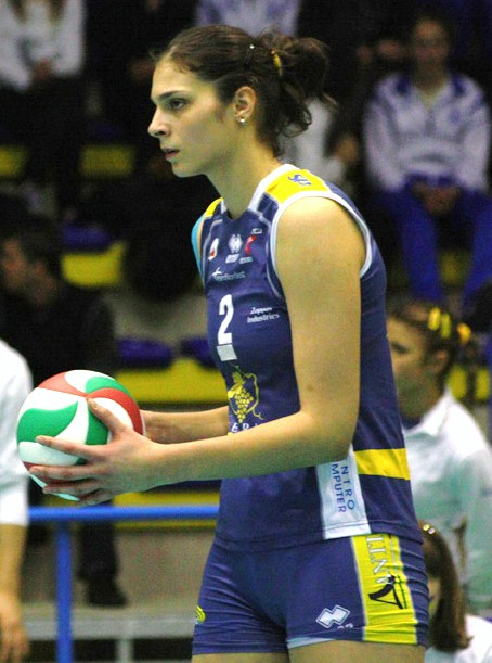 Serbian volleyball player Jovana Brakocevic